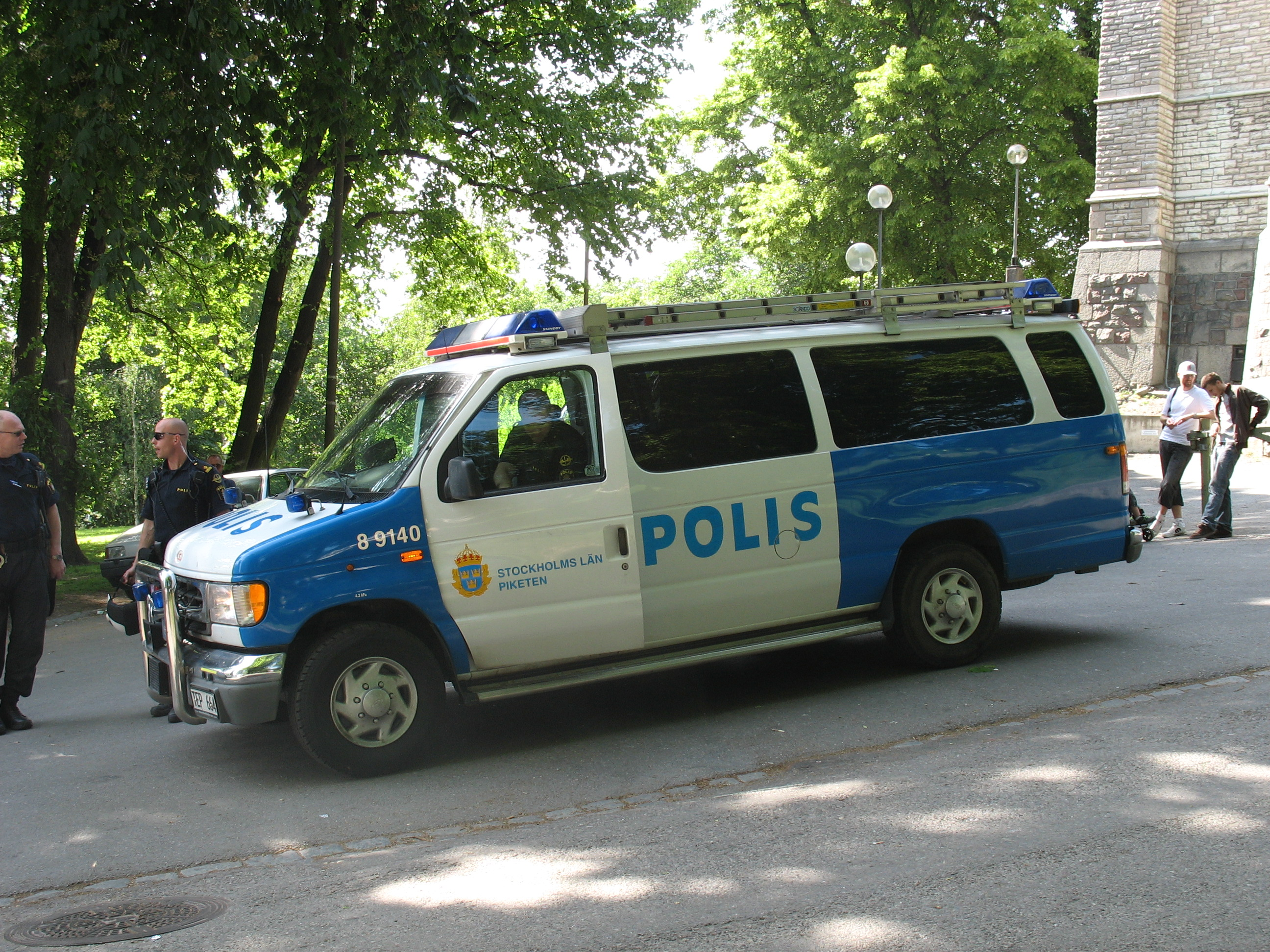 A van of Piketen, a section of the Swedish police similar to US SWAT teams. Picture taken at a nationalist demonstration in Stockholm on National Day, 2007.